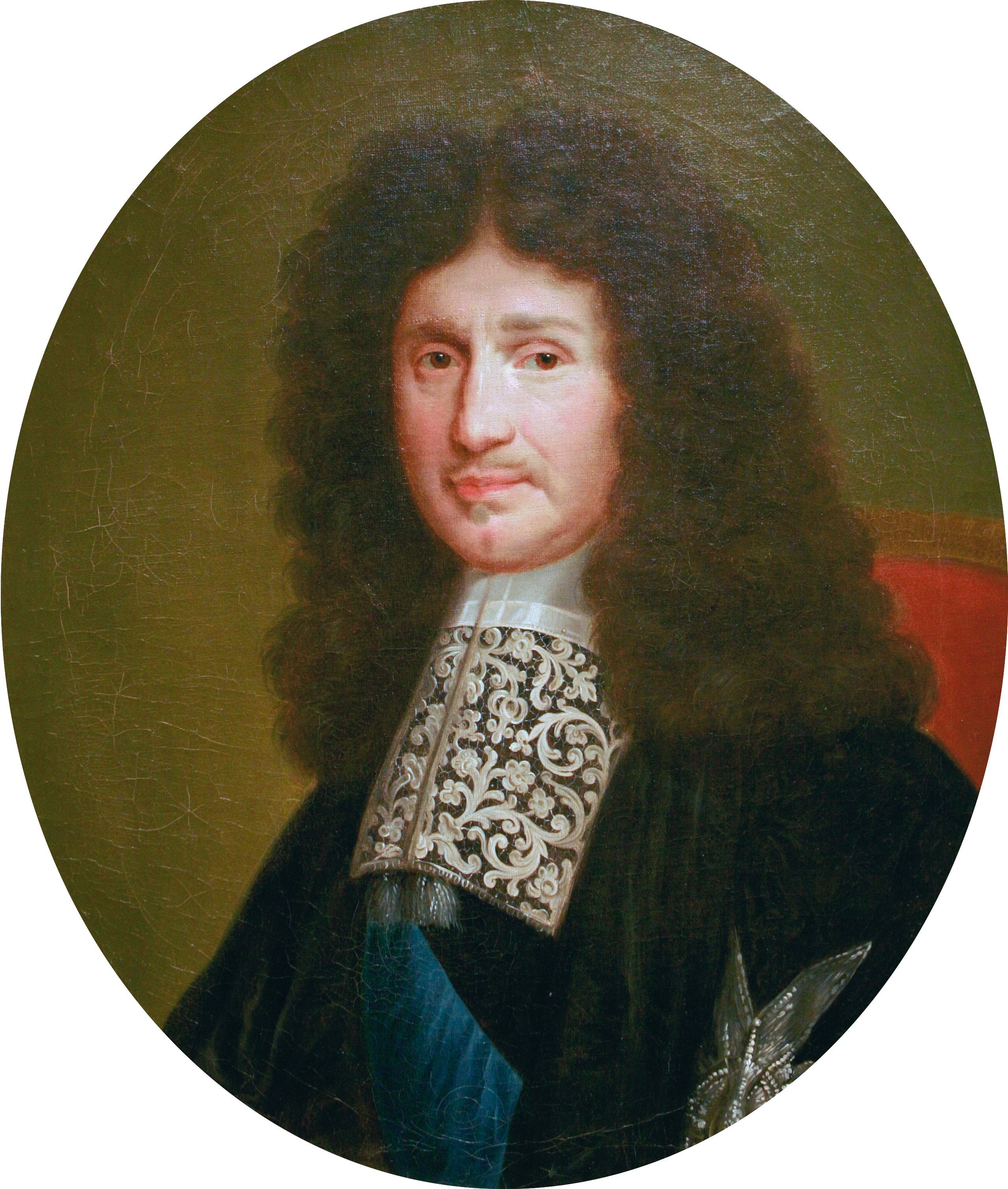 Portrait of Colbert. 18th century painting made after an engraving by Robert Nateuil published in 1676 On display at the Musée de la Compagnie des Indes in Port-Louis, accession number 3521